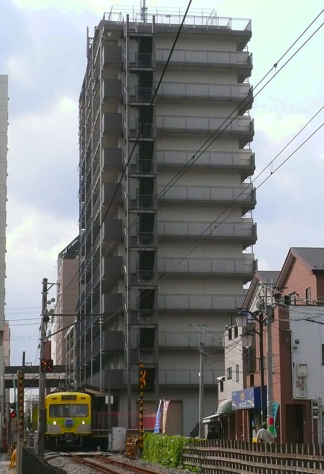 Nagareyama-Dentetu Railway Kouya-Station(Japan,Chiba-prefecture,Matsudo-City). 流鉄流山線の幸谷駅が併設されたマンションを公道から撮影。 画像の奥側が馬橋駅方面となる。 駅の所在地は千葉県松戸市新松戸。